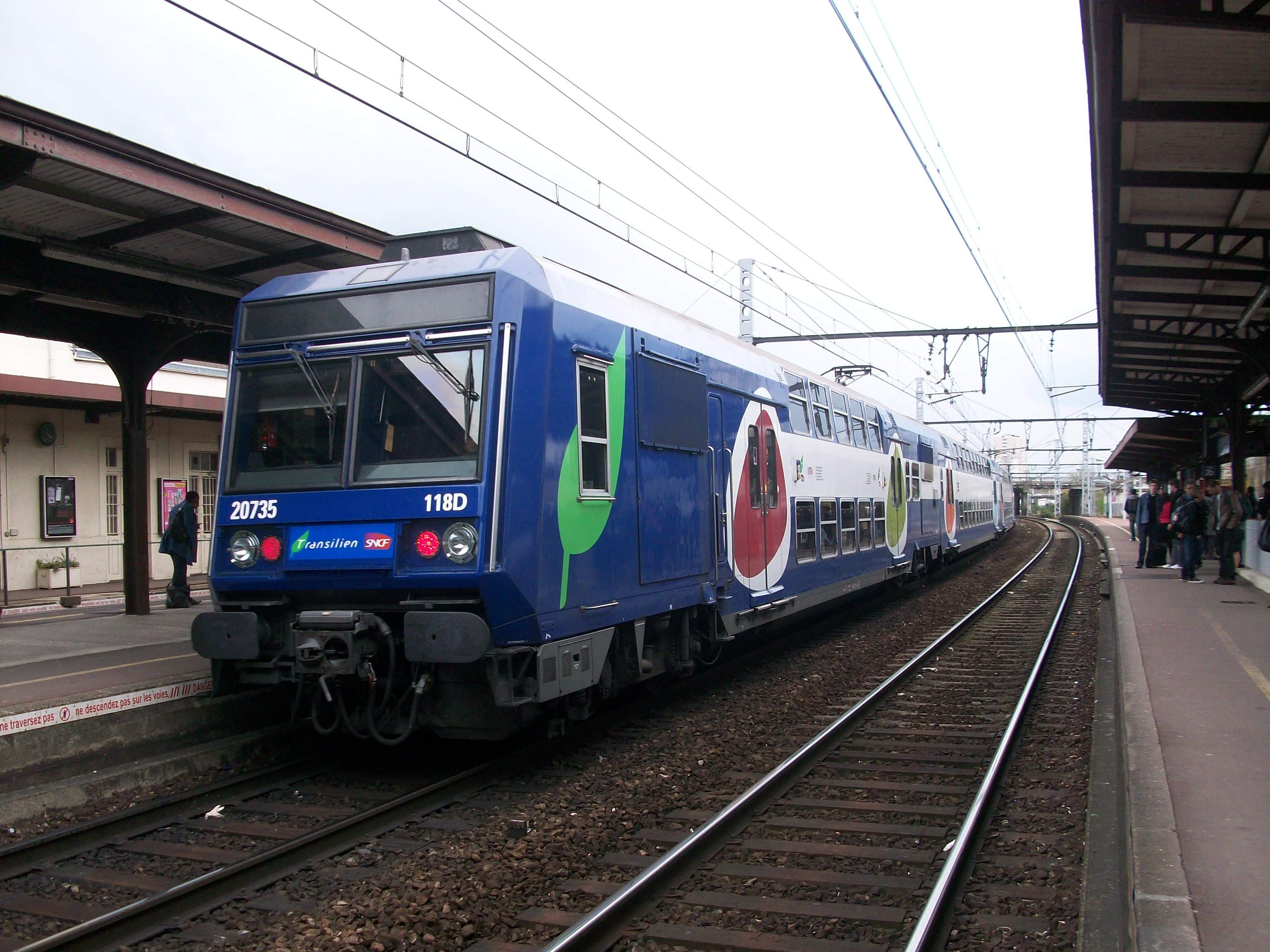 A restored Z 20550 of the RER D in Paris